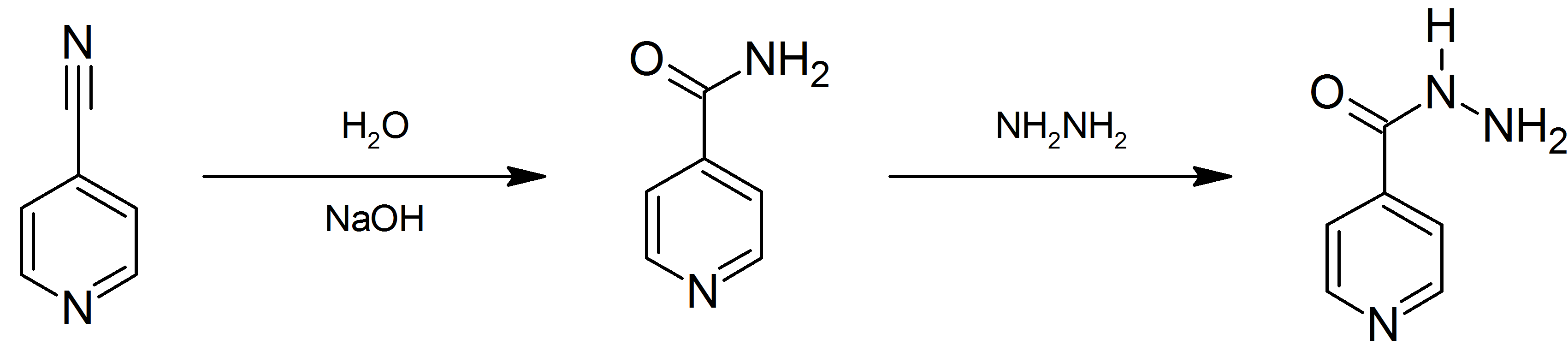 Preparation of isoniazid. T. P. Sycheva, T. N. Pavlova and M. N. Shchukina (1972). "Synthesis of isoniazid from 4-cyanopyridine". Pharmaceutical Chemistry Journal 6 (11): 696-698.